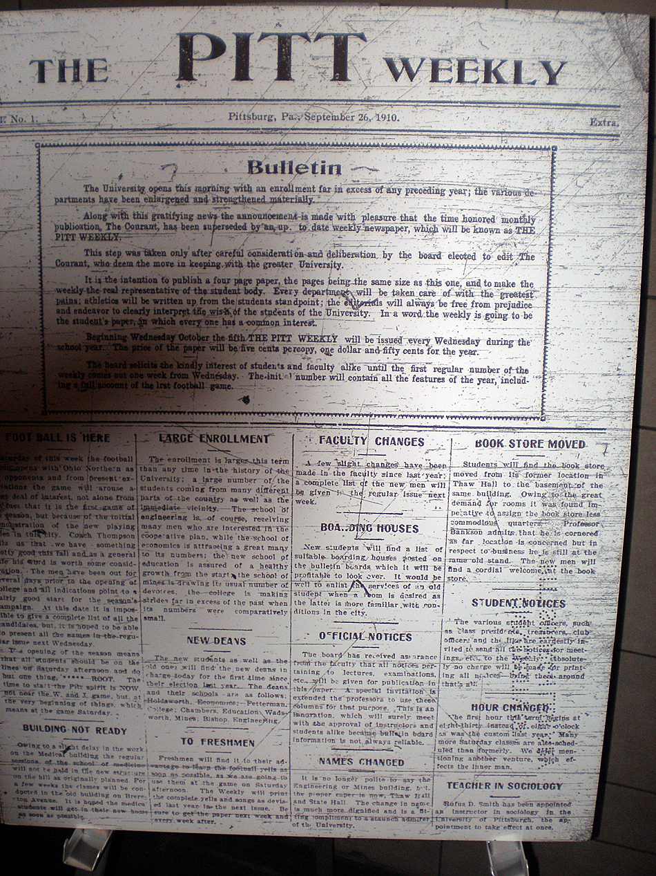 A display of a copy of the front page of the first ever edition of The Pitt News (originally named The Pitt Weekley), the student newspaper of the University of Pittsburgh. The Pitt News was first published in 1910 and this copy was on display in the Cathedral of Learning for the newspaper's 100th anniversary during the university's homecoming in 2010.